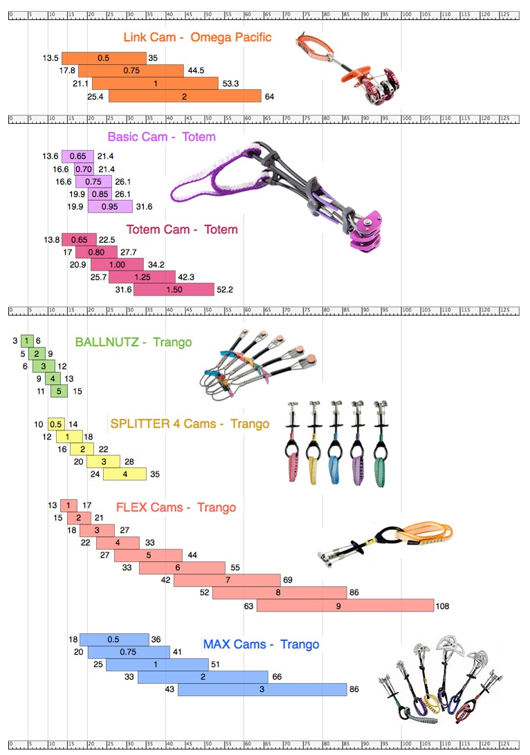 Spring-loaded camming devices_sizes